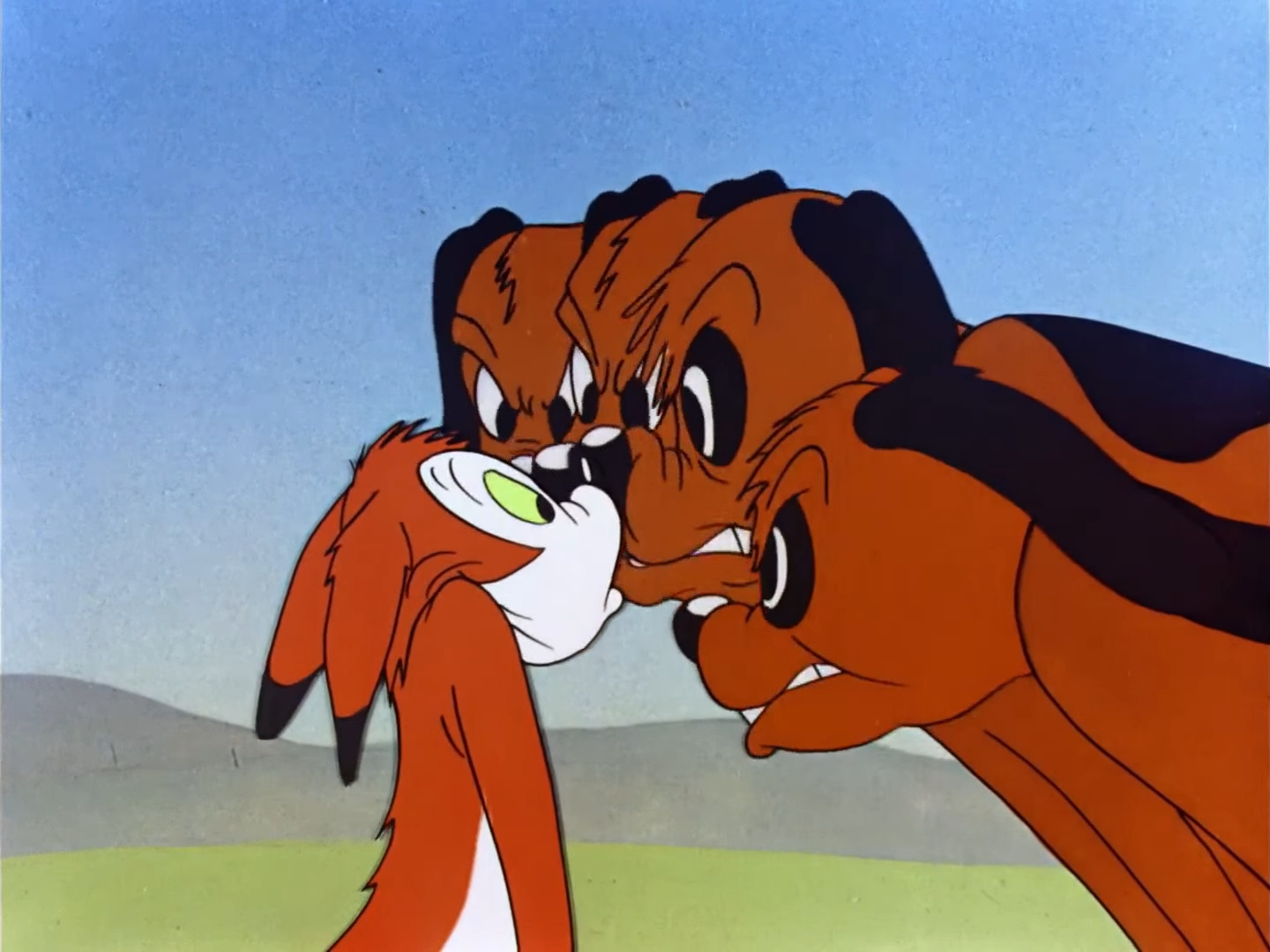 A screenshot of the American traditional animated short film Fox Pop in the Merrie Melodies series. This depicts a fox getting feared at four hounds while responding about silver before getting beaten.